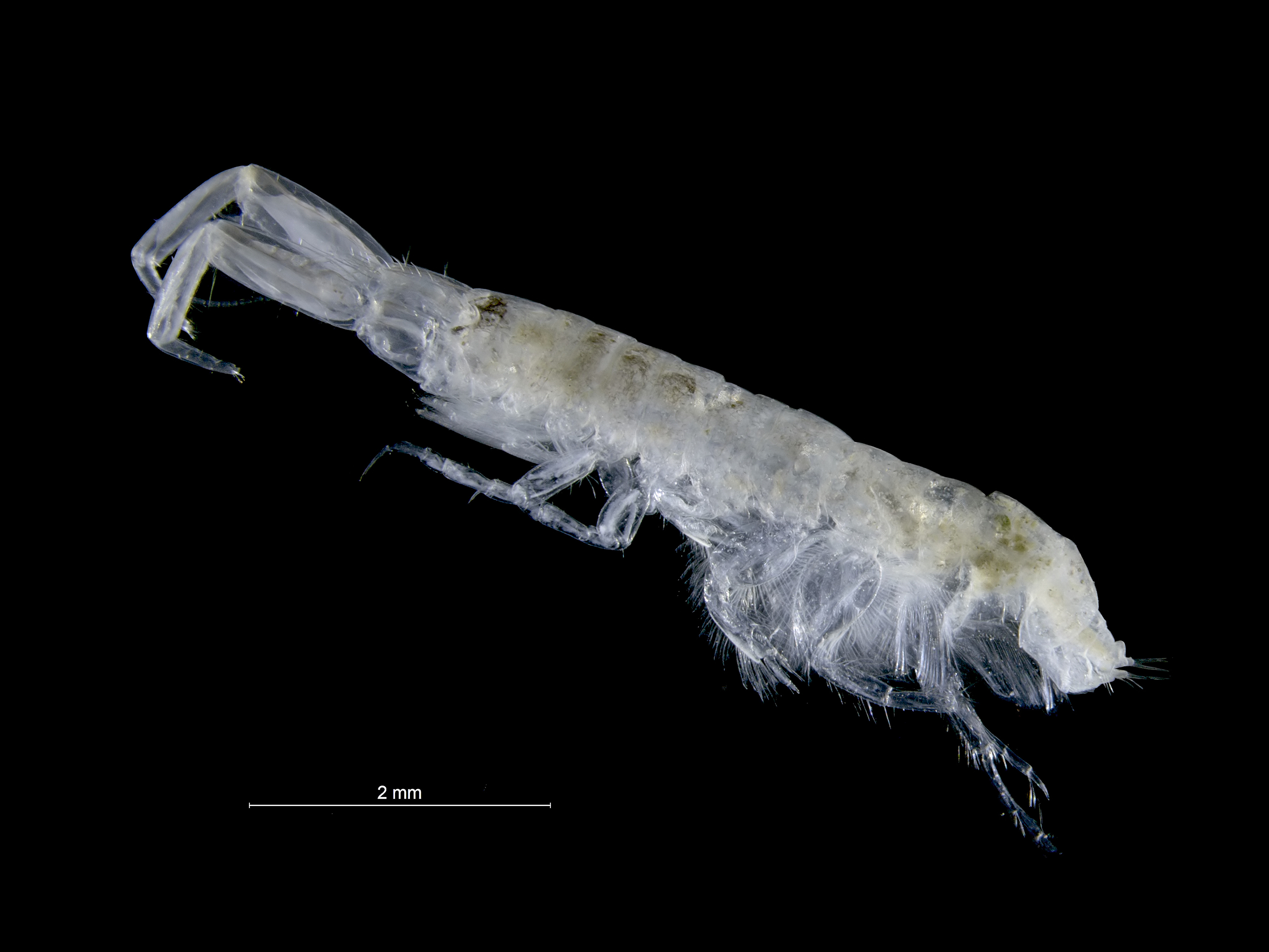 A benthic amphipod from the Belgian part of the North Sea. Length = 6 mm Focus stacking of 9 pictures.